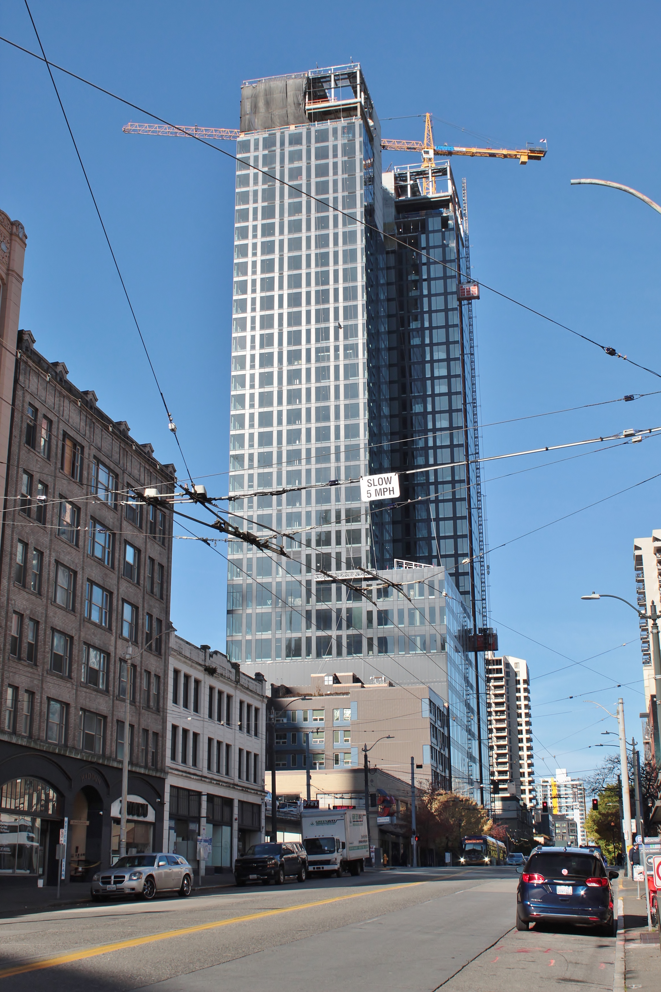 The topped-out Third and Lenora mixed-use tower in Seattle, Washington.